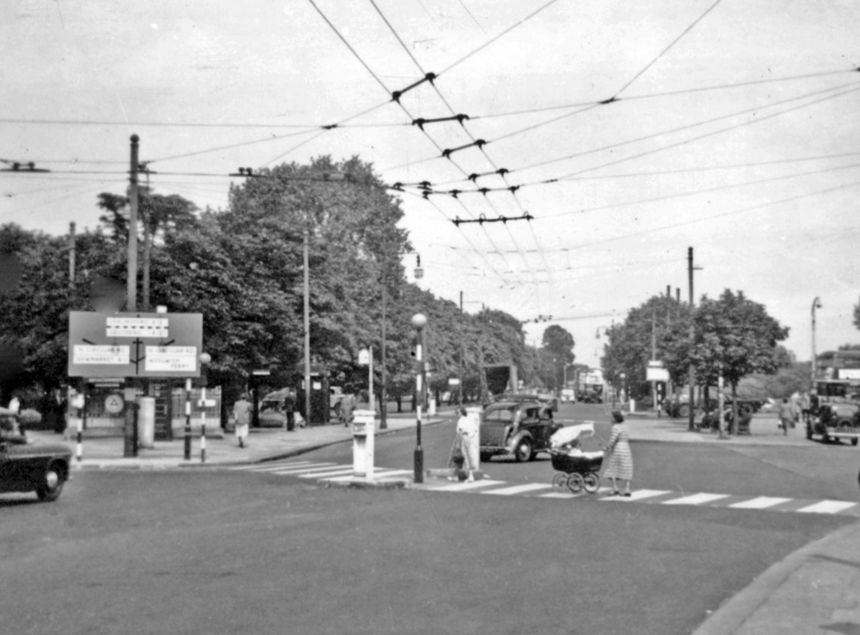 Leytonstone, 1955: intersection on A12 at the Green Man